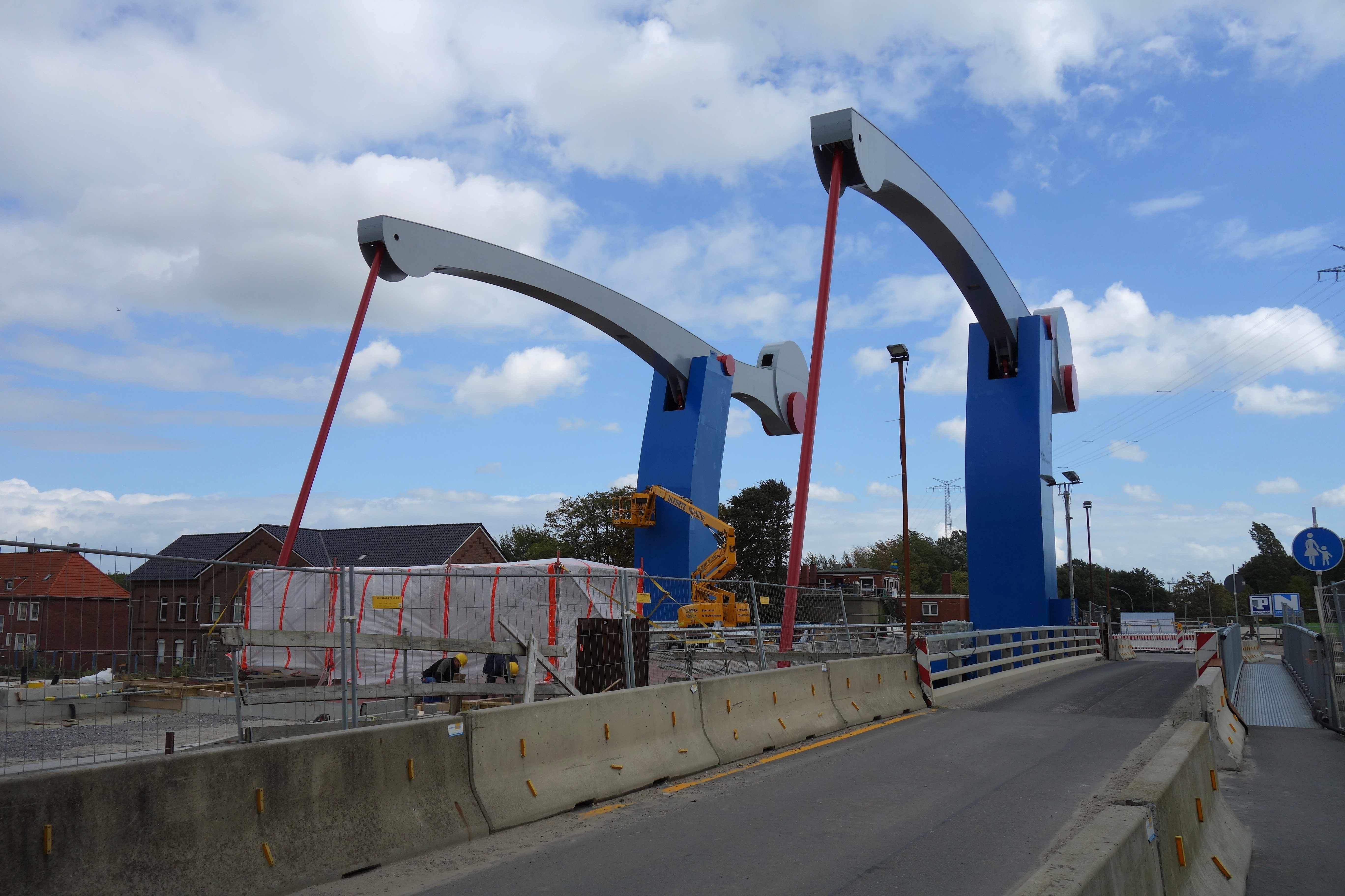 New Nesserlander Schleuse under final construction